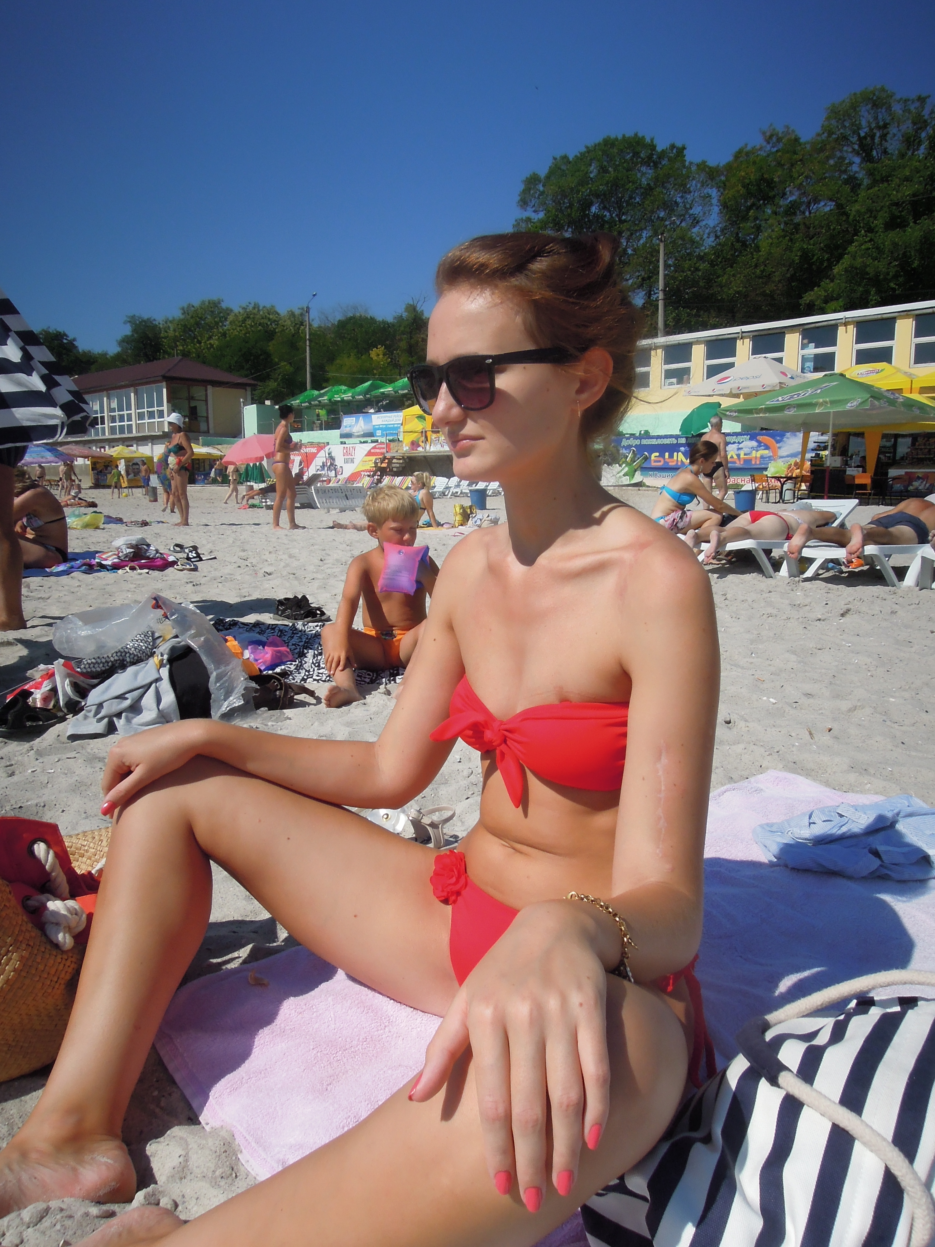 At the beach of Odessa